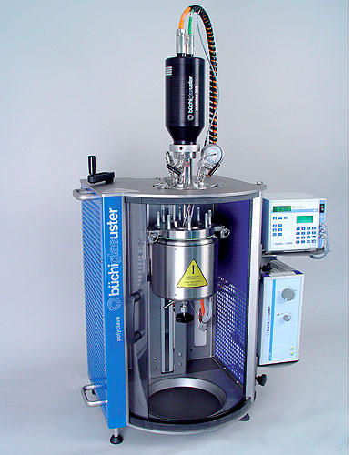 Equipment used during suspension polymerization reactions